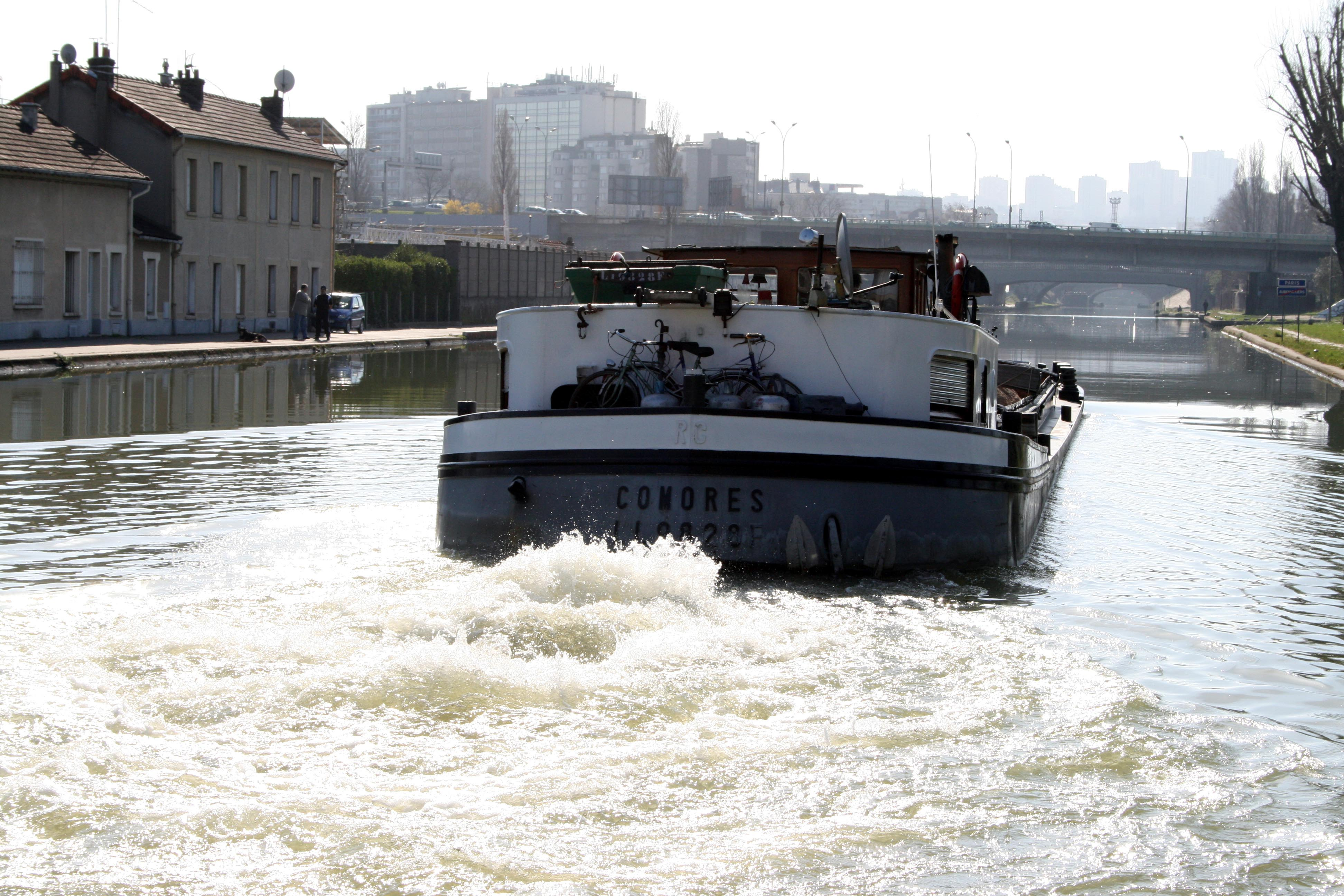 Description =Péniche sur le canal Saint-Denis Source =Photo taken by Remi Jouan Date =Mars 2007 Author =Remi Jouan